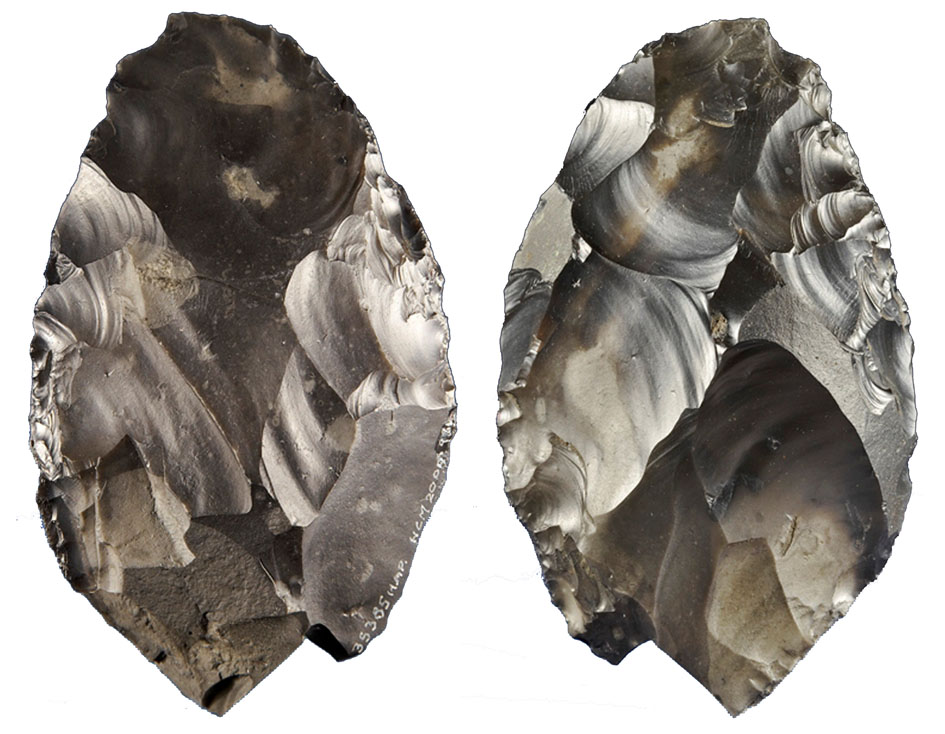 Paleolithic handaxe from Happisburgh, Norfolk, found on the beach by a dog-walker in 2000. Dated 800,000 - 600,000 BP.